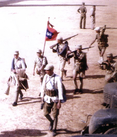 Nationalist soldiers during World War II.